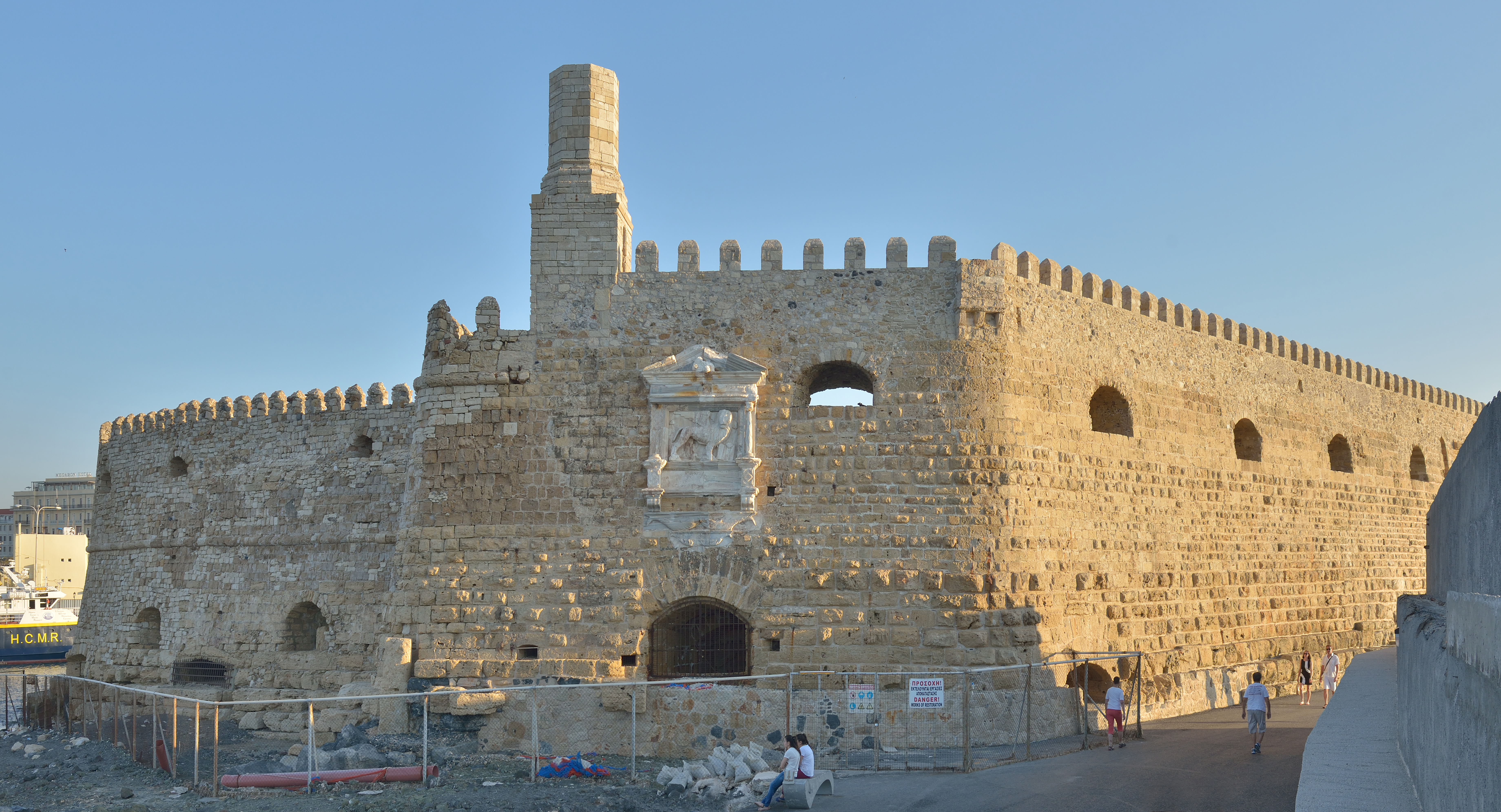 Venetian Fortress of Koules in Heraklion in Crete.